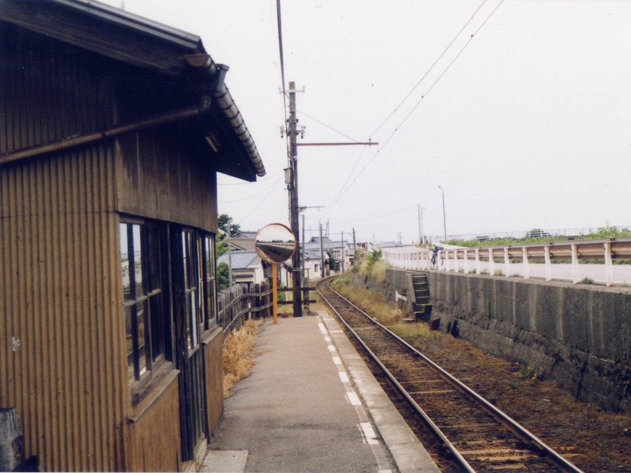 Itai Station, Niigata Kotsu Railway which became the abolished line on April 5, 1999.